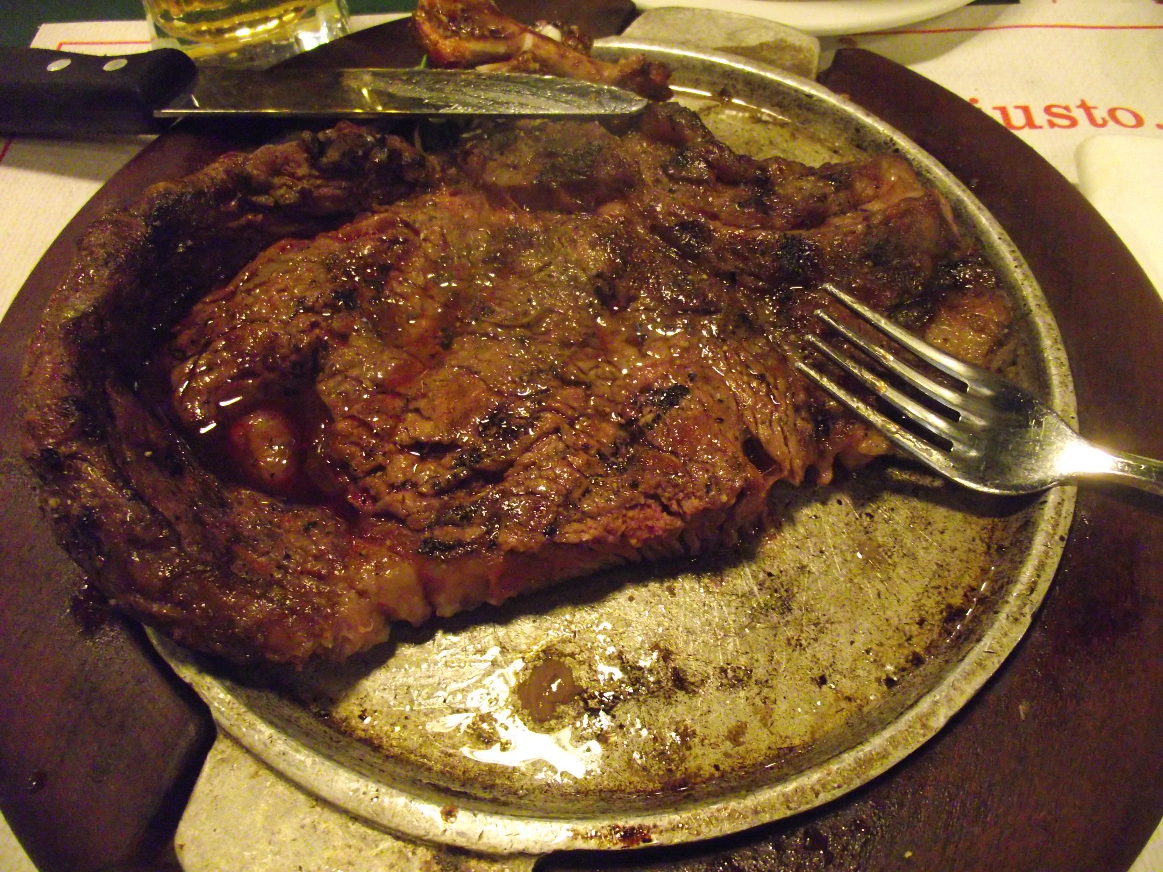 One lb barbecued Rib eye steak